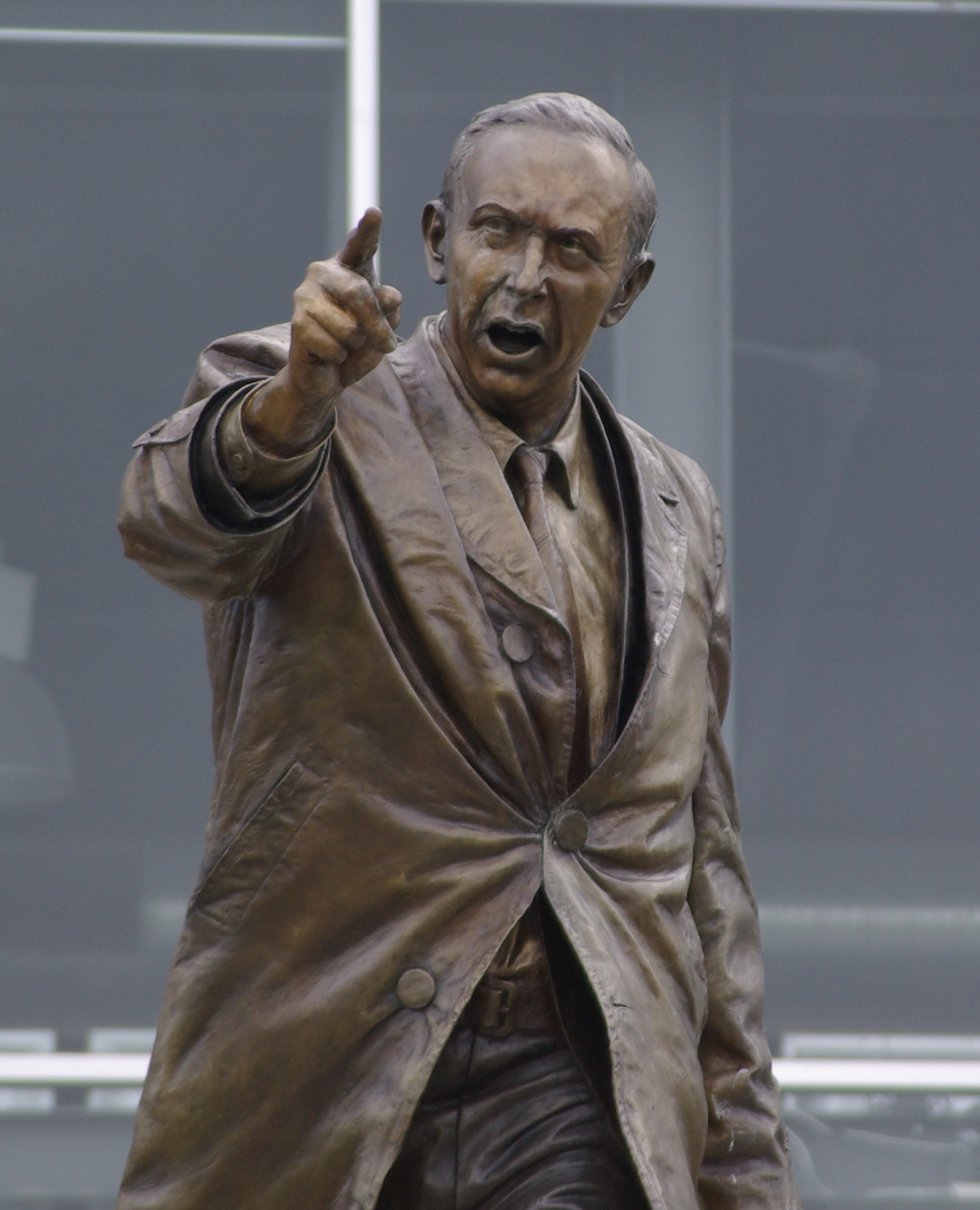 Bronze statue of Wikipedia:John Kennedy Sr. in front of Waverly Park